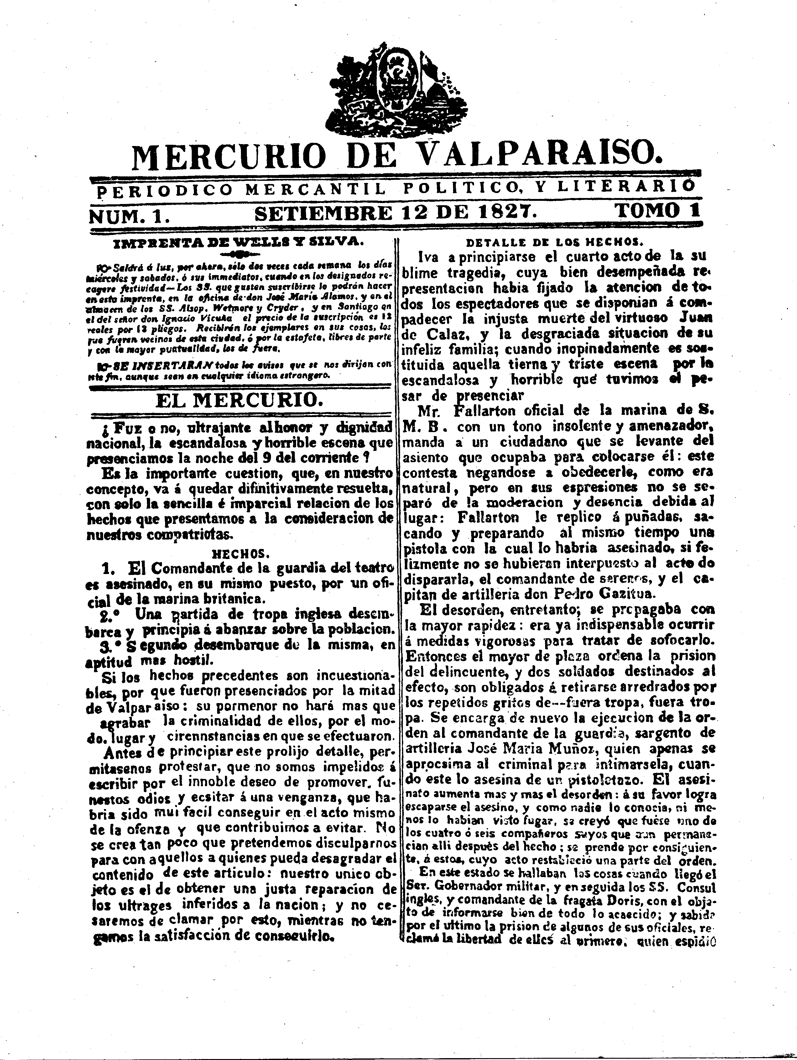 El Mercurio de Valparaiso, Chile. First page of the first edition.